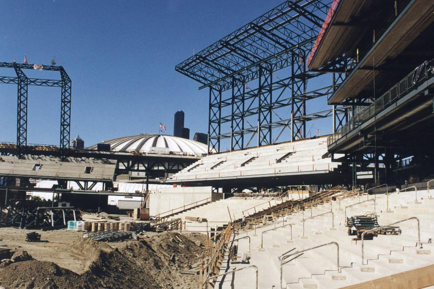 Safeco Field under construction in 1998. The Kingdome can be seen in the background, as can some of the towers of Downtown, the tallest and next-to-rightmost of which is the Columbia Center.